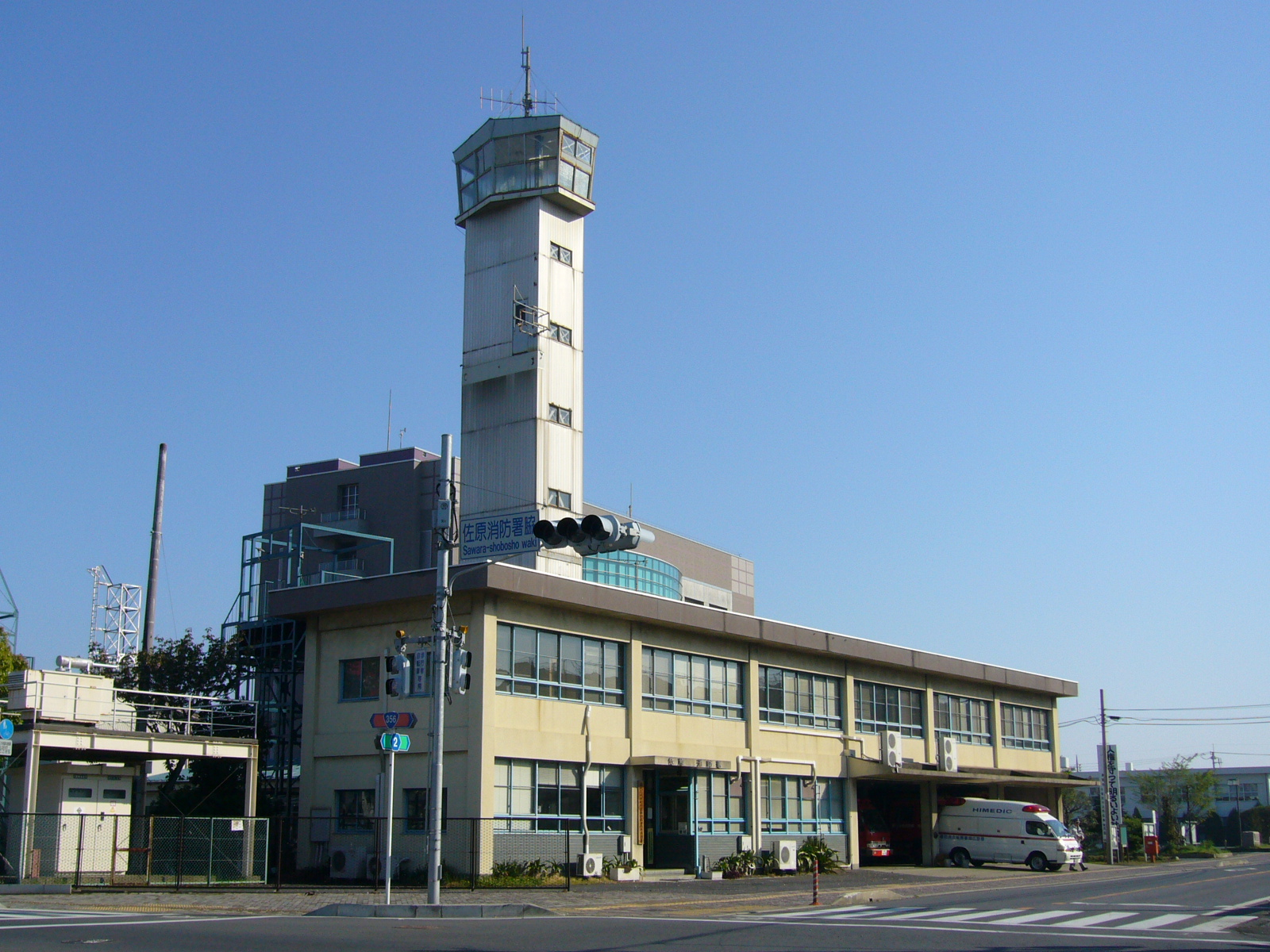 Sawara fire station, Katori-city, Japan